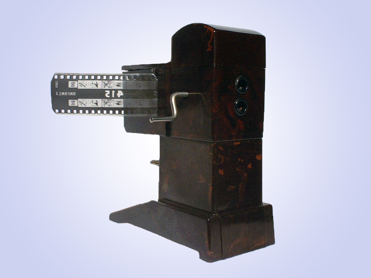 Liliput Kino Germany